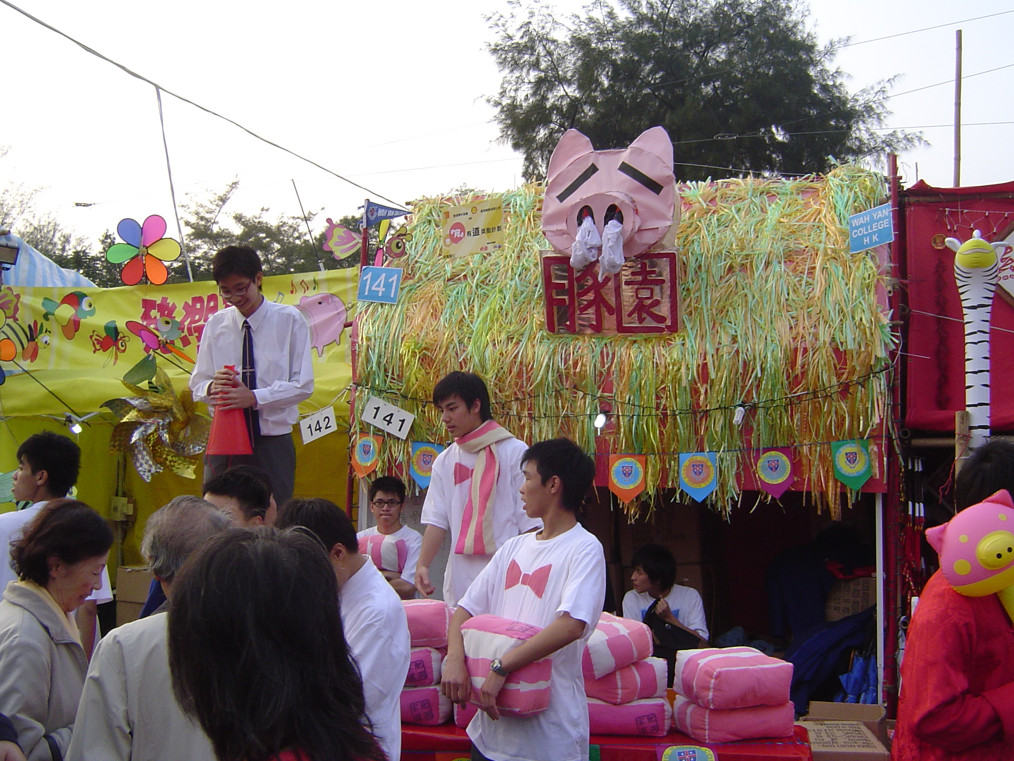 Wah Yan College Hong Kong's Lunar New Year fair stall (no. 141) in Victoria Park, Hong Kong. Self-taken by Raphael Mak